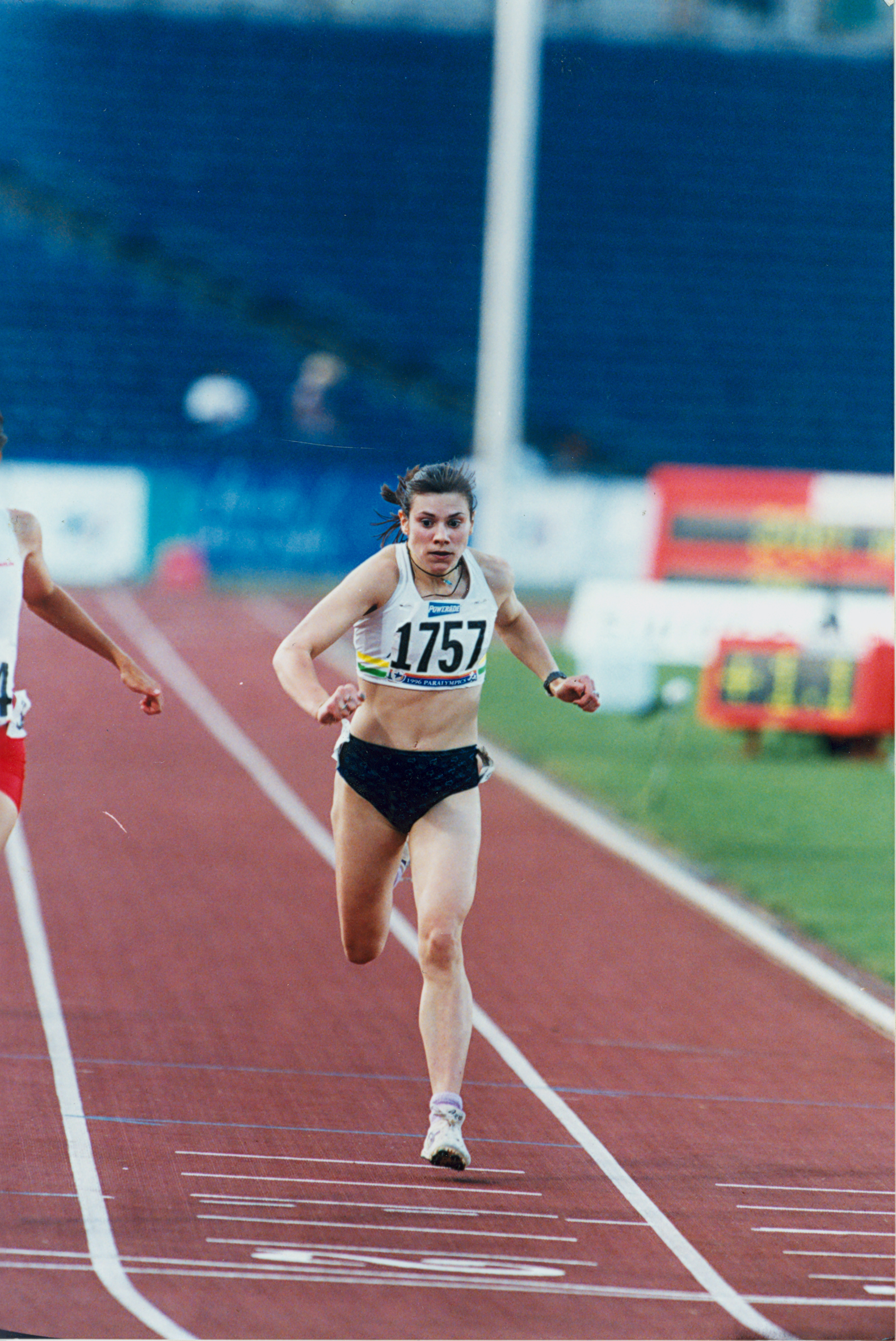 Australian athletics gold medallist Lisa Llorens sprinting at the Atlanta 1996 Paralympic Games.